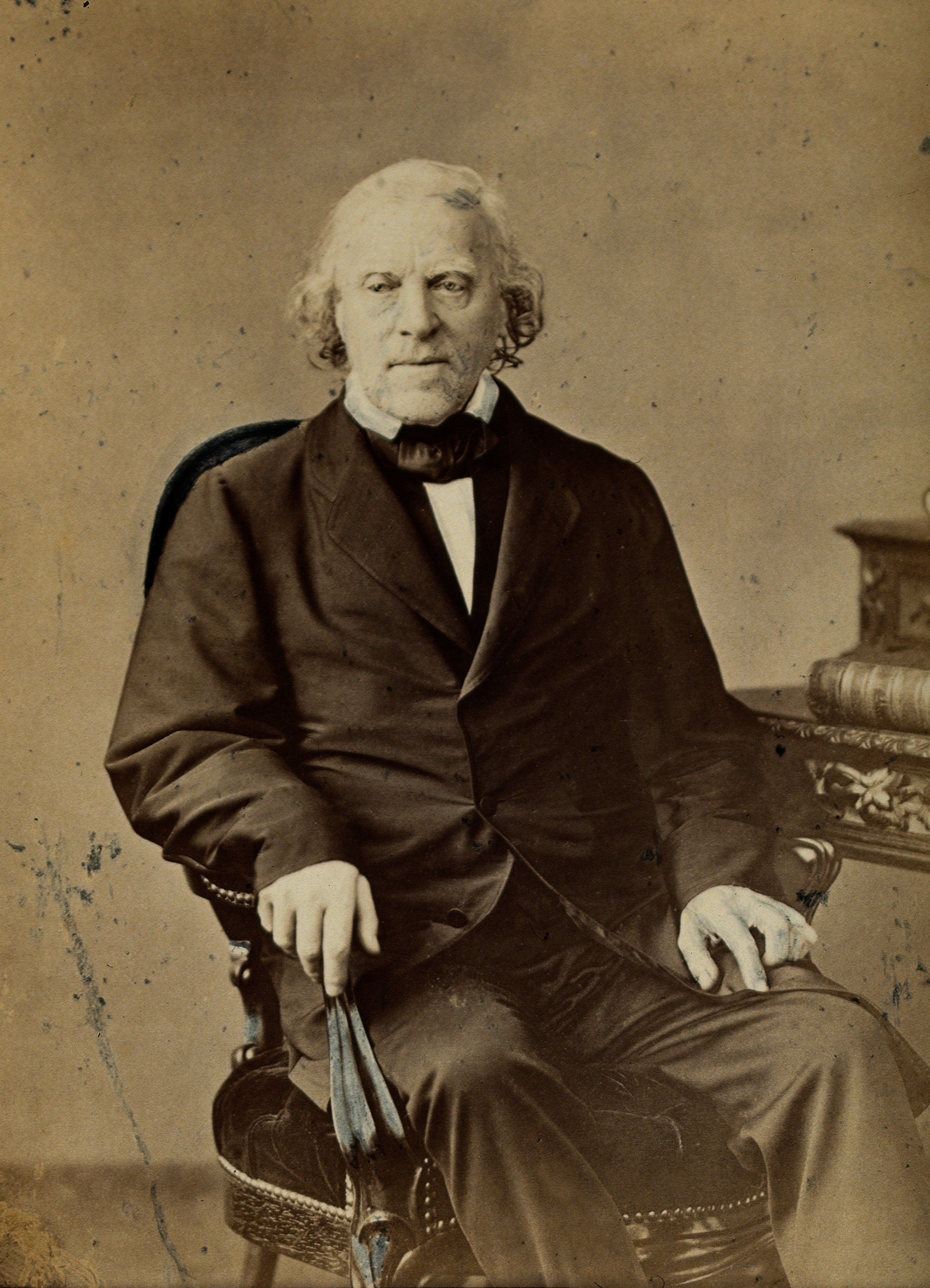 François-Vincent Raspail. Photograph by Mathieu-Deroche, 1862. Iconographic Collections Keywords: portrait photographs